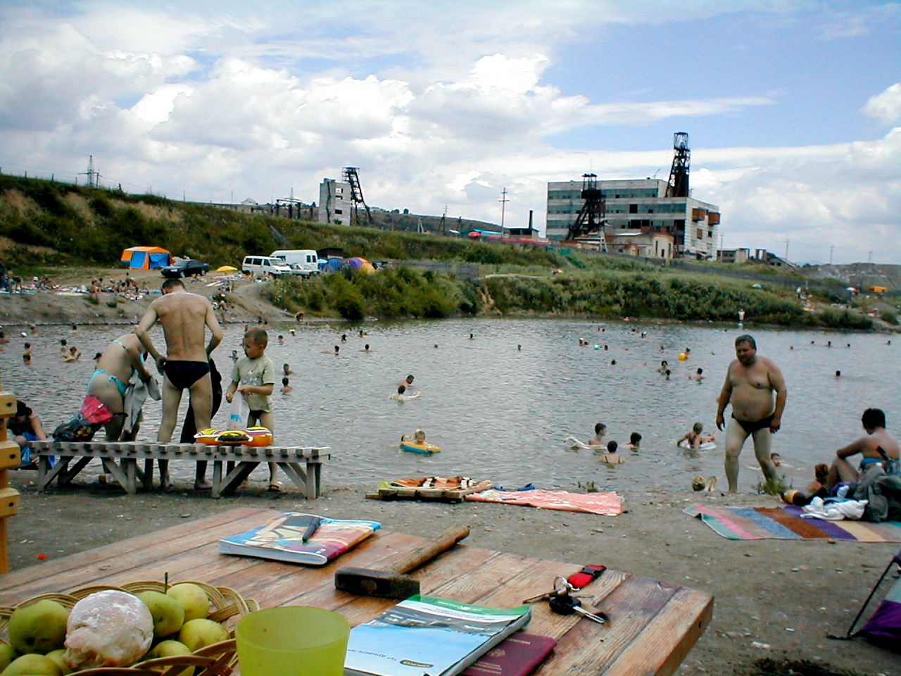 Description: Saltlake and -mine in Solotwino, recreation camp,"Eldorado", Ukraine Source: self-made July 2005 Photographer/Painter: Stefan Richter